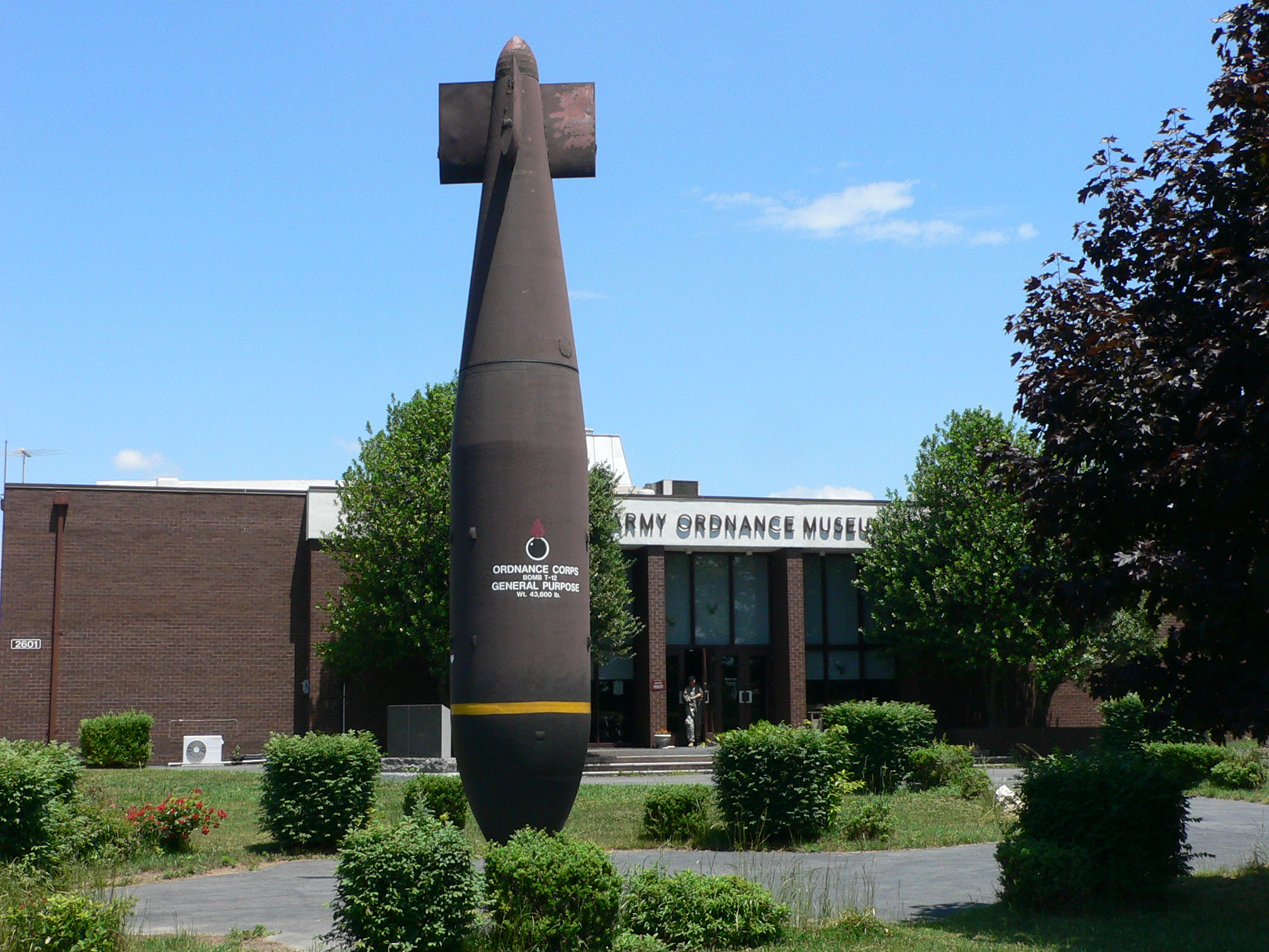 Picture taken by myself, Mark Pellegrini, at the United States Army Ordnance Museum (Aberdeen Proving Ground, MD) on June 12, 2007.